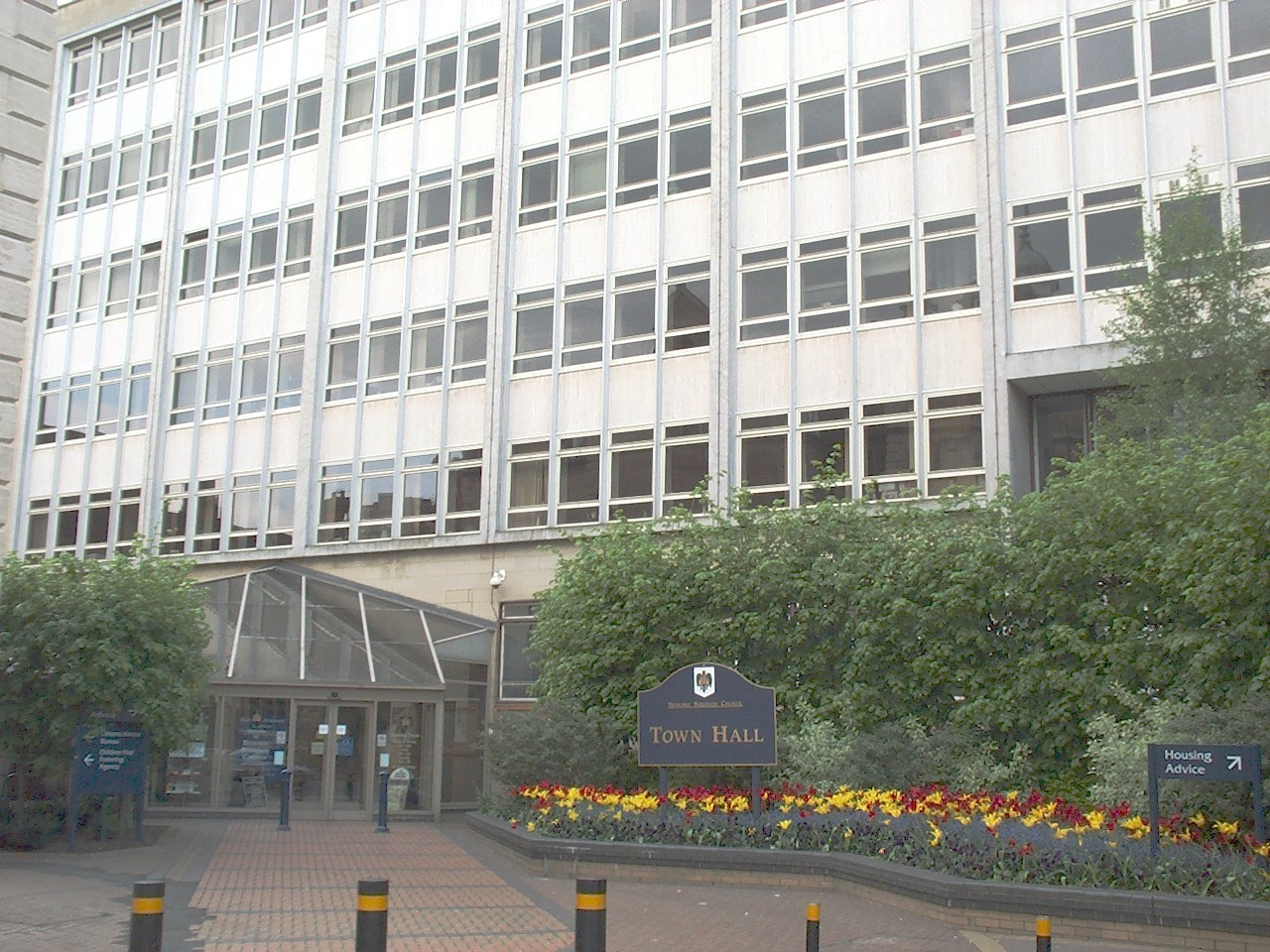 Town Hall, Bedford, Bedfordshire, England. Proposed for demolition in April 2010